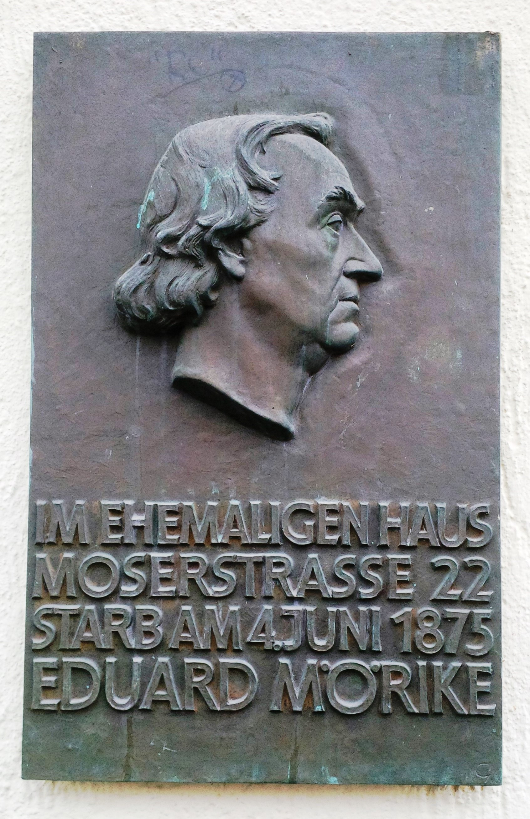 House where Eduard Mörike passed away